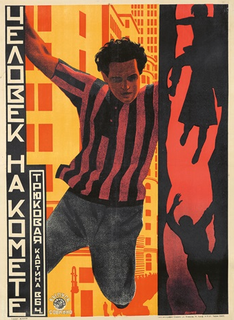 Man in striped polo short, maybe falling. Poster for film by Alfred Halm when film was distributed in te Soviet Union